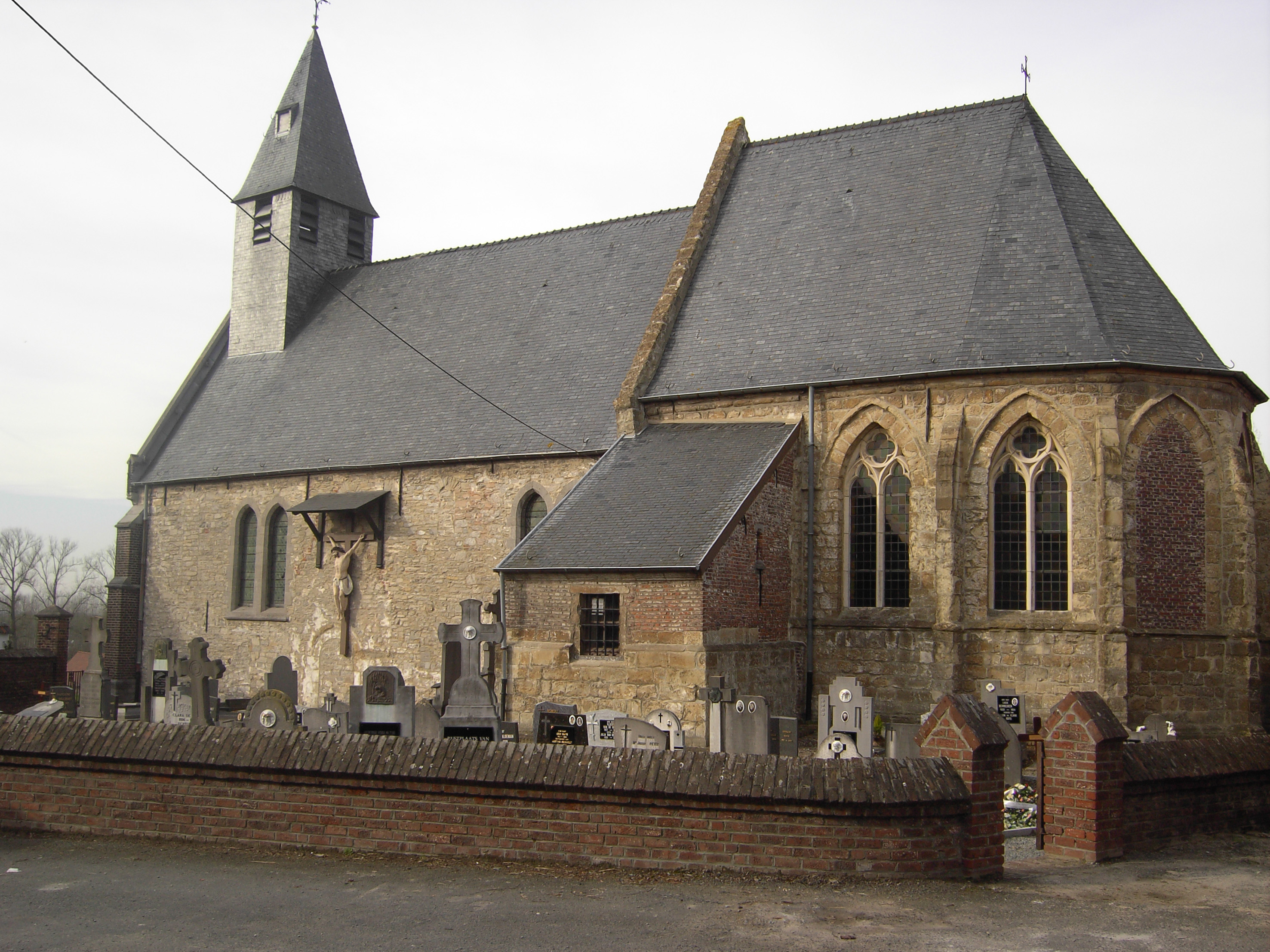 Church of Saint Gangulphus in Paulatem. Paulatem, Zwalm, East Flanders, Belgium